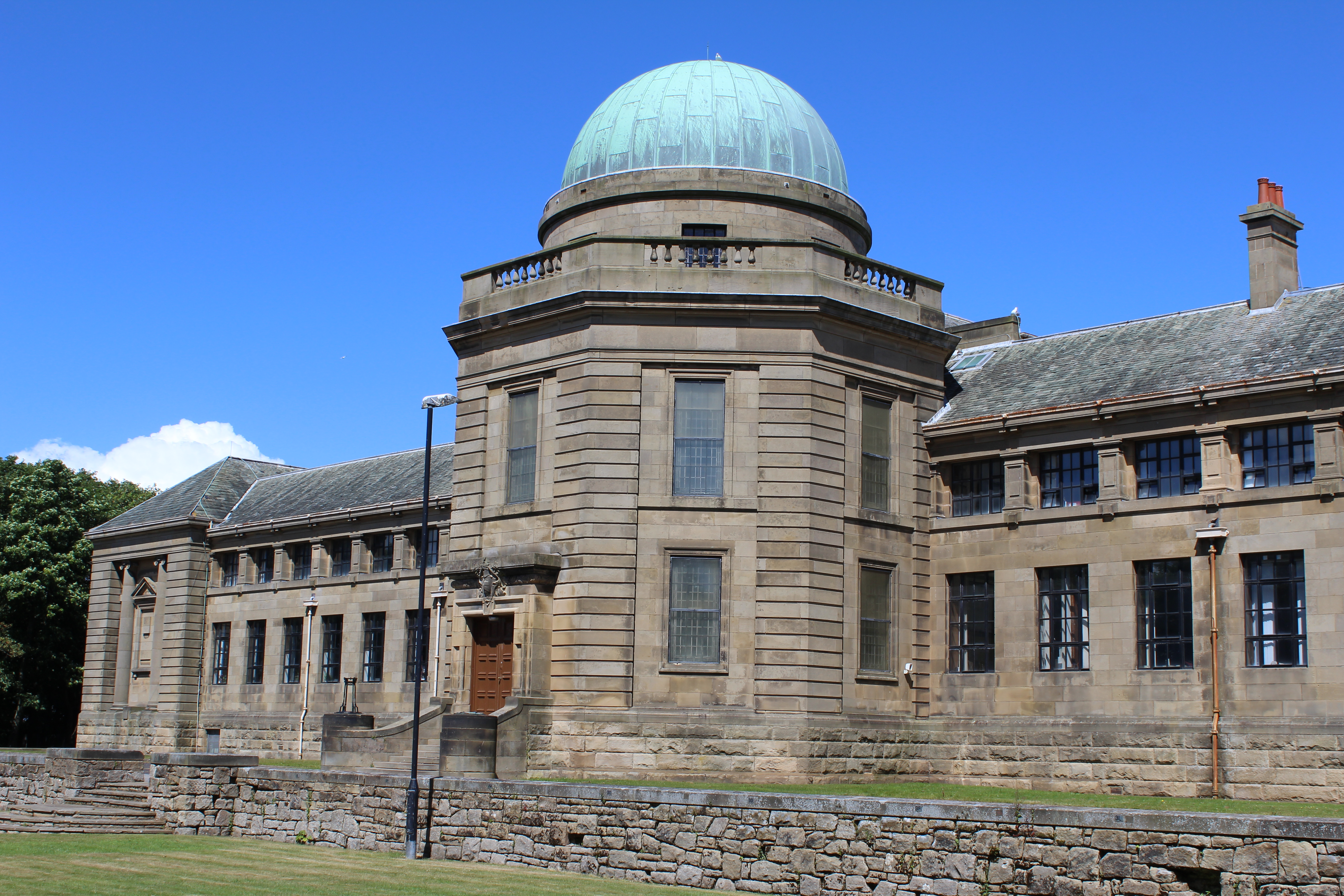 Marr College in Troon